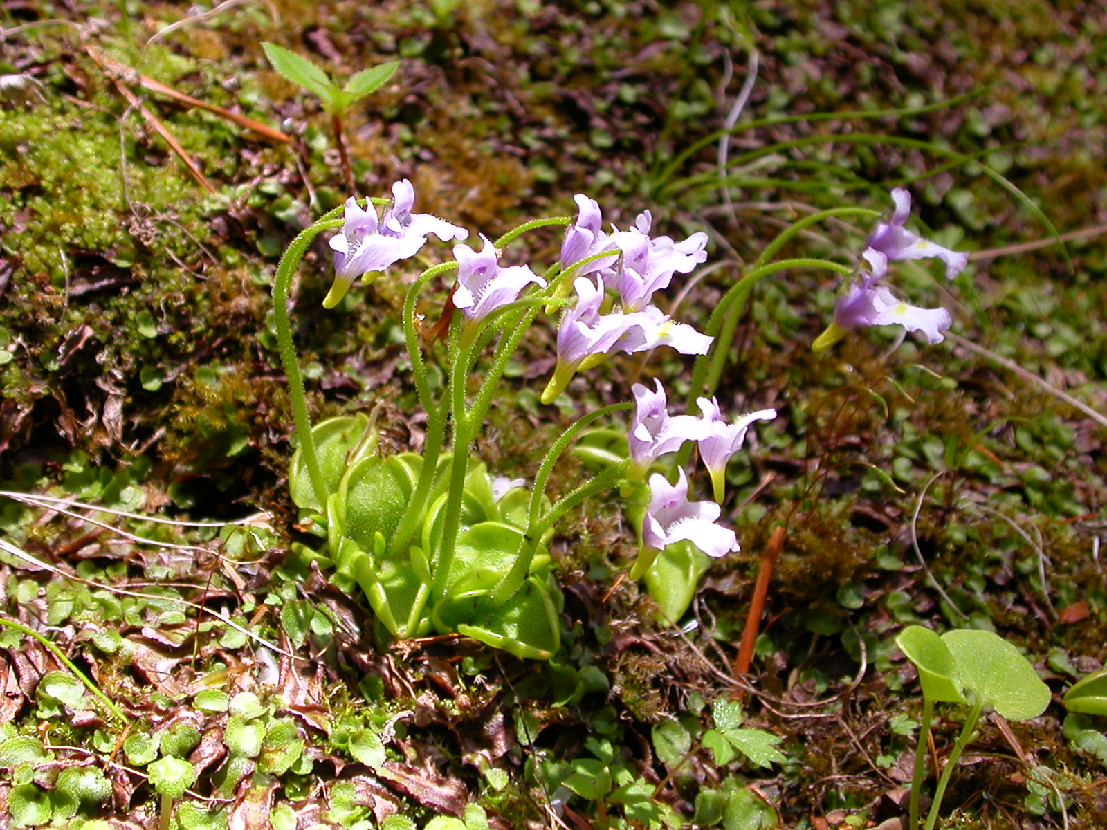 Pinguicula ramosa at Mount Koshin in Tochigi Prefecture, Japan